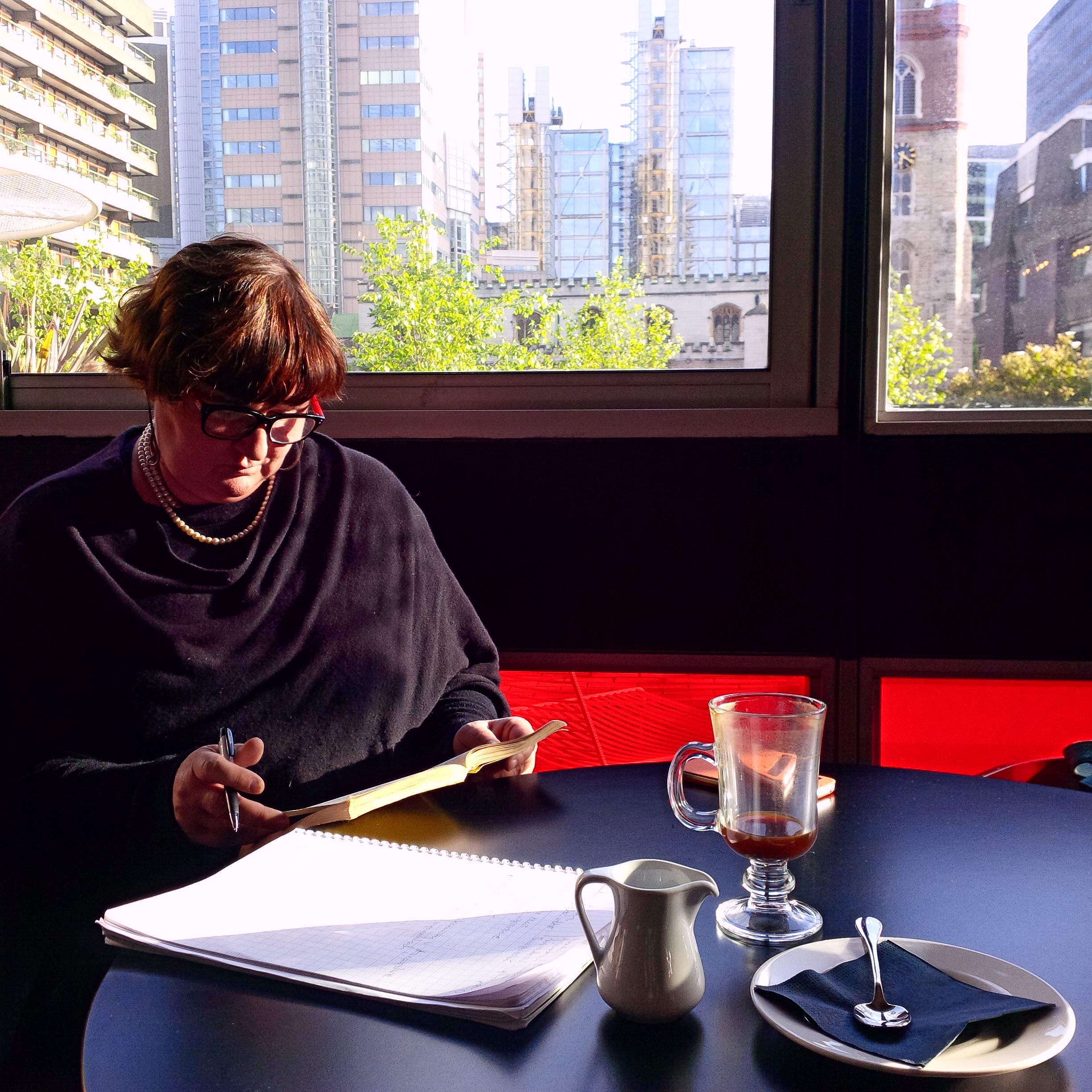 Prof. Magdalena Środa at Barbican in London, UK (2014).